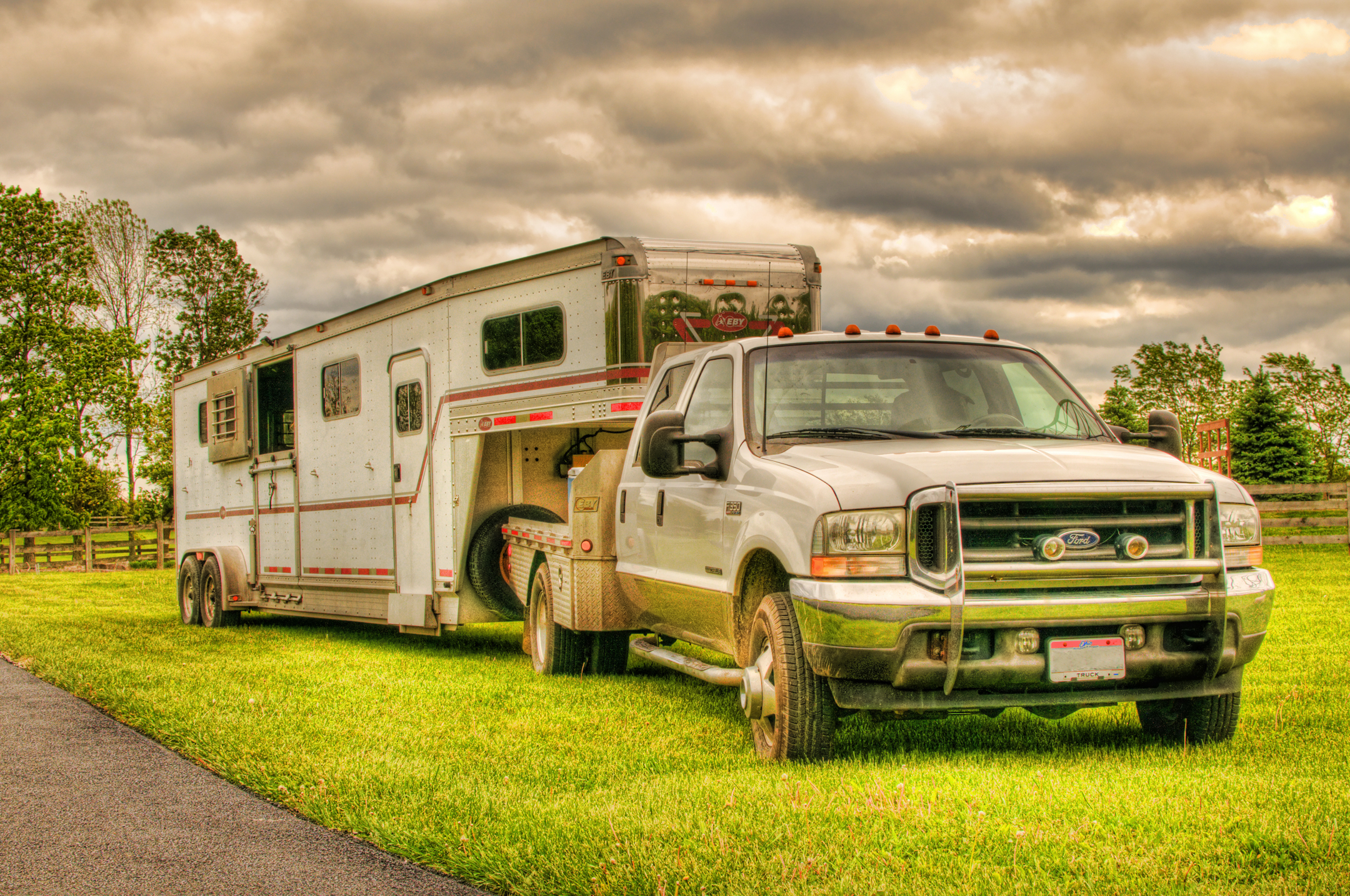 Highmark Farm open house - Dublin OH.